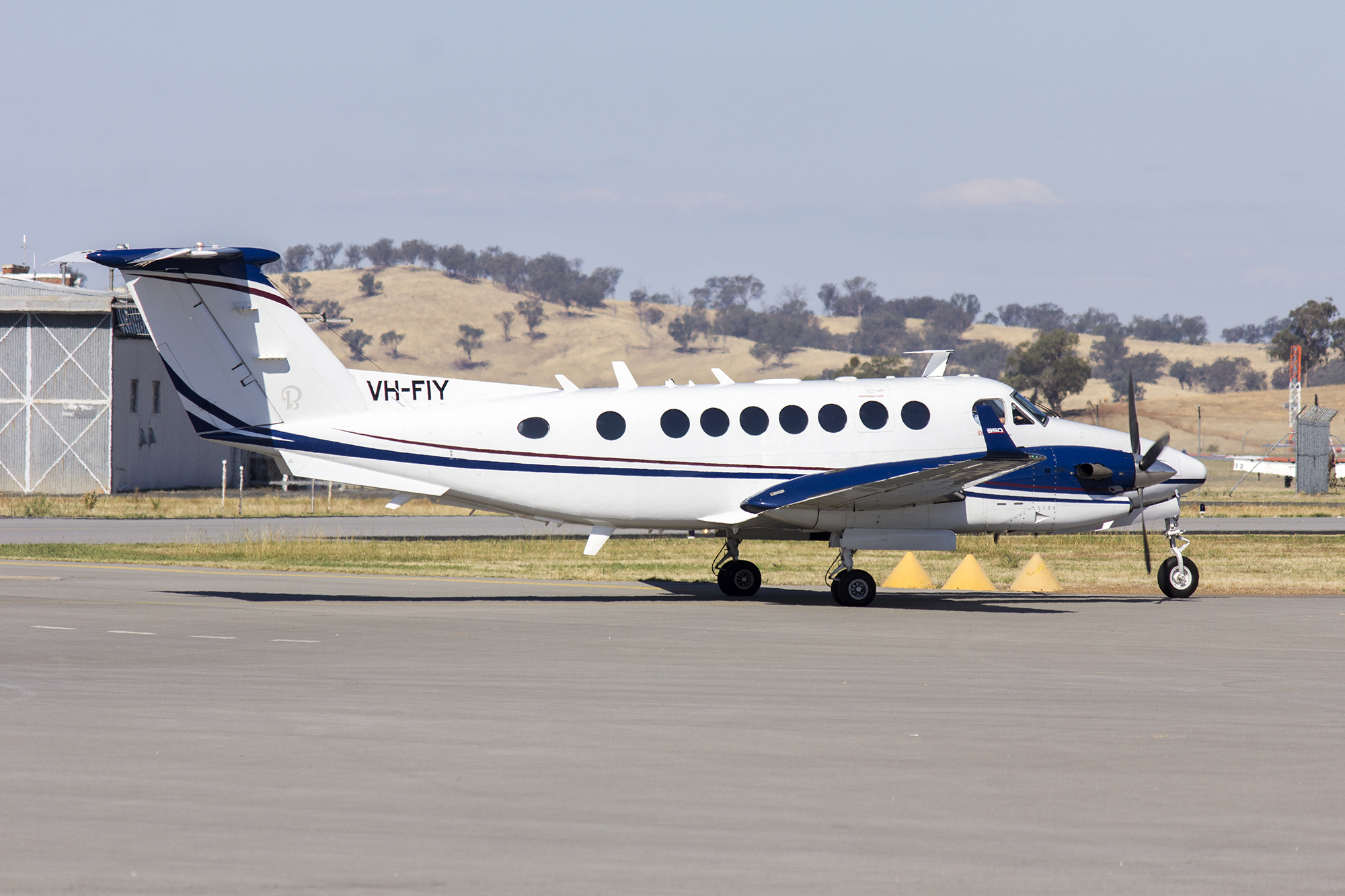 Pearl Aviation (VH-FIY) Beechcraft B300 Super King Air 350, on contract for Airservices Australia Flight Inspection Service, taxiing at Wagga Wagga Airport.